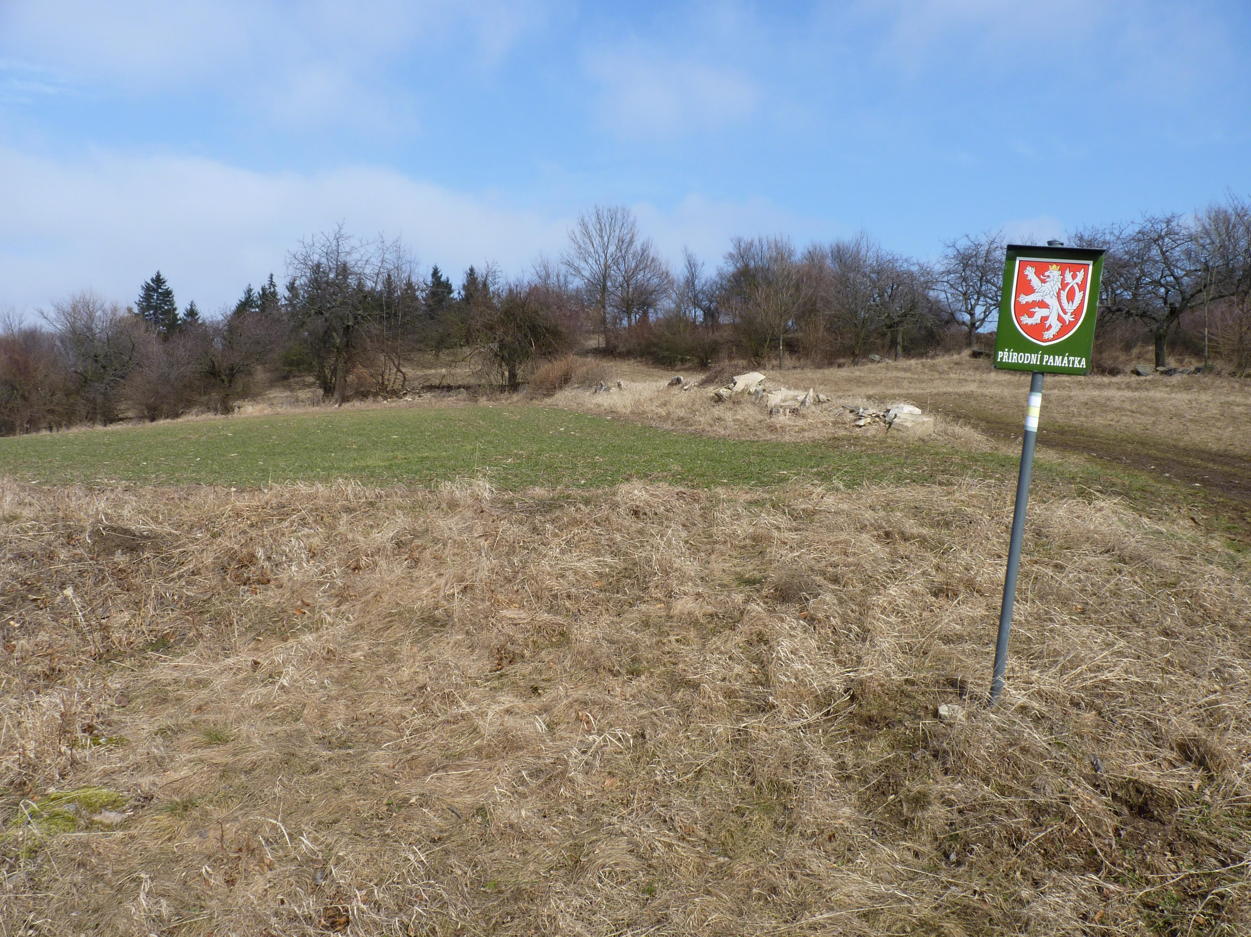 Veselský chlum, natural monument in Brno-Country District, South Moravian Region, Czech Republic Project: Chráněná území